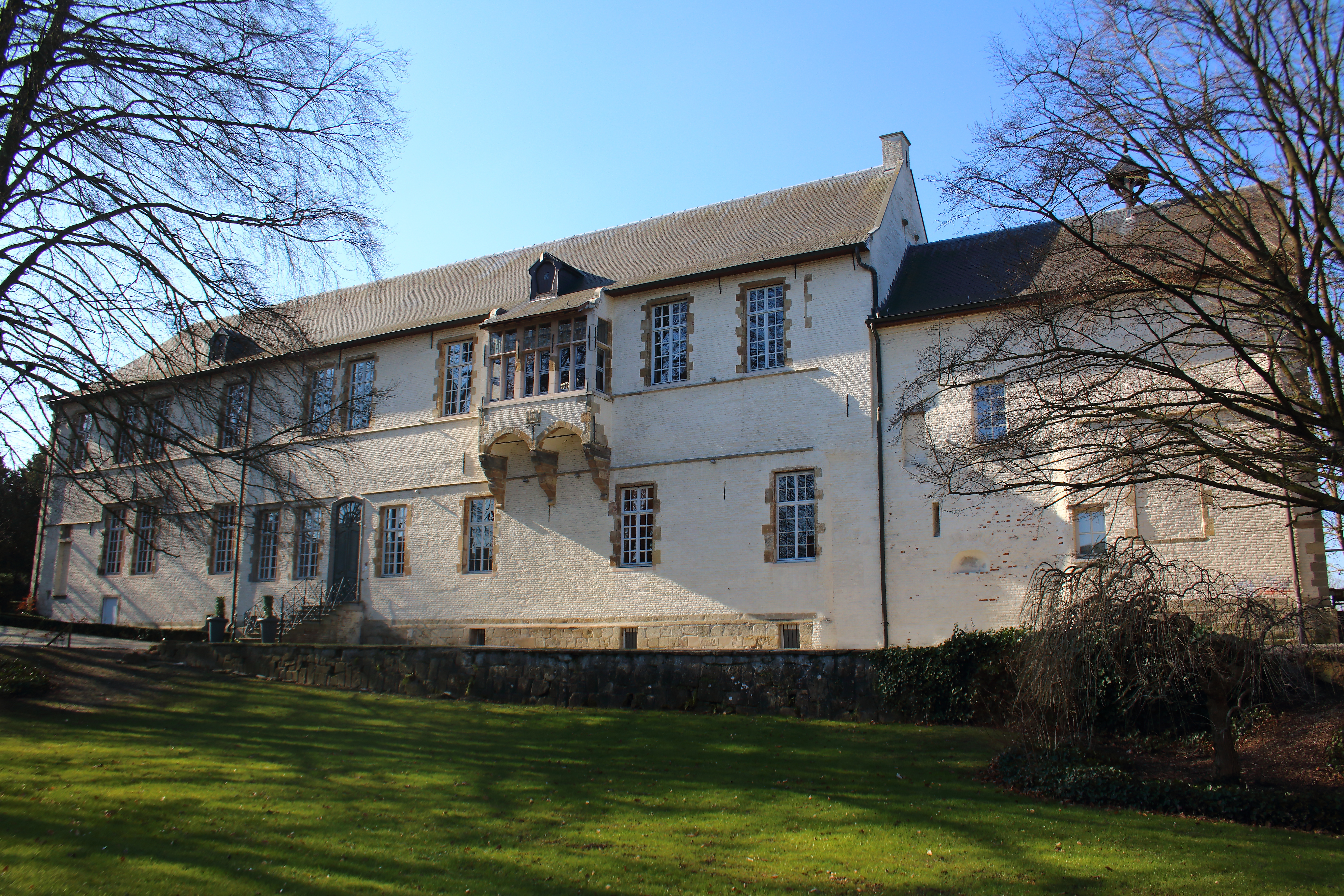 Egmont's castle, Zottegem, Flanders, Belgium